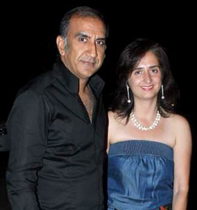 Bollywood & TV actors at Ekta Kapoor's birthday bash